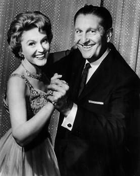 Photo of bandleader Lawrence Welk and singer Norma Zimmer from the Lawrence Welk television program.